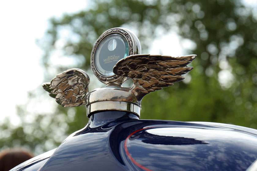 winged Boyce MotoMeter on 1927 Duesenberg Straight X8 Boattai Roadster_IMG_7246